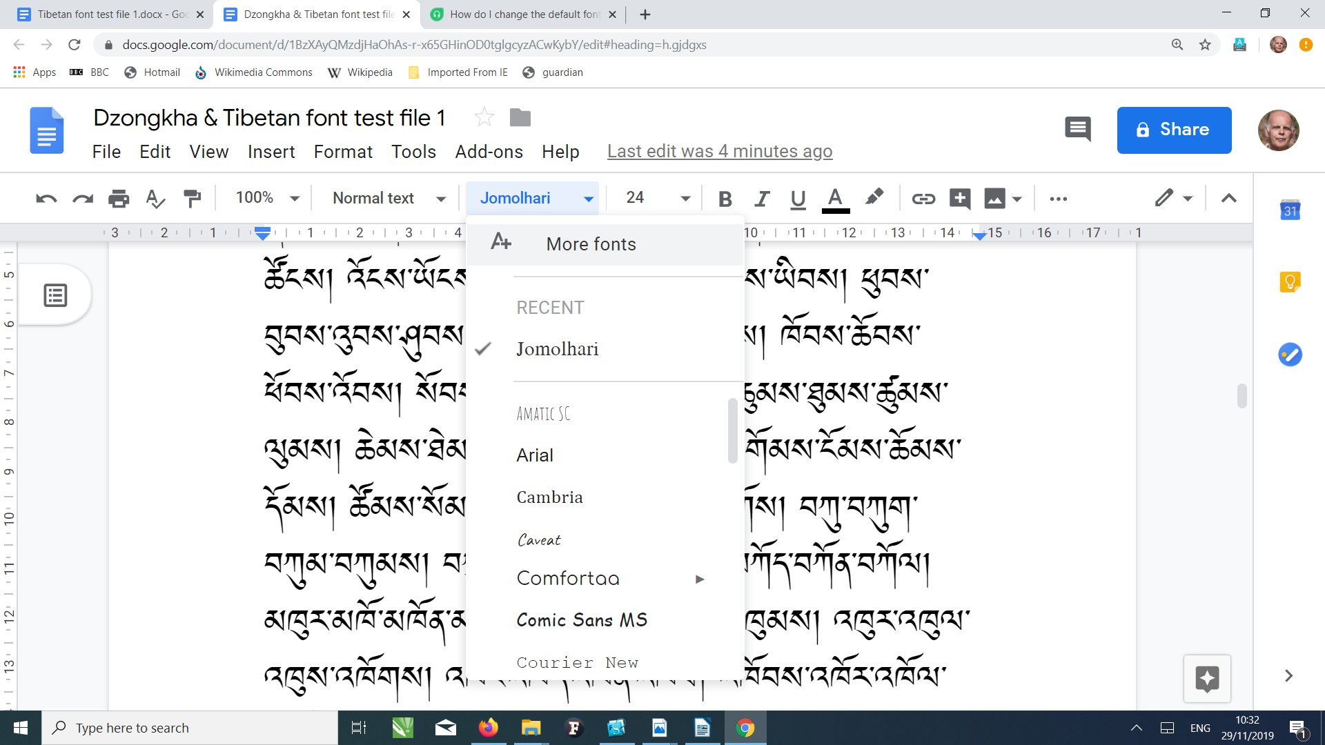 Example of Jomolhari font used in Google Docs